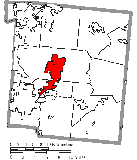 Map of the municipal and township boundaries of Warren County, Ohio, United States, as of the 2000 census, with the location of the city of Lebanon highlighted. Township borders are shown only in unincorporated areas in order to differentiate incorporated and unincorporated areas more clearly.